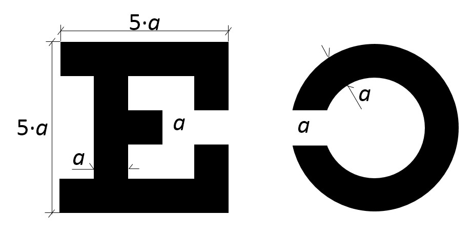 Snellen E and Landolt C example